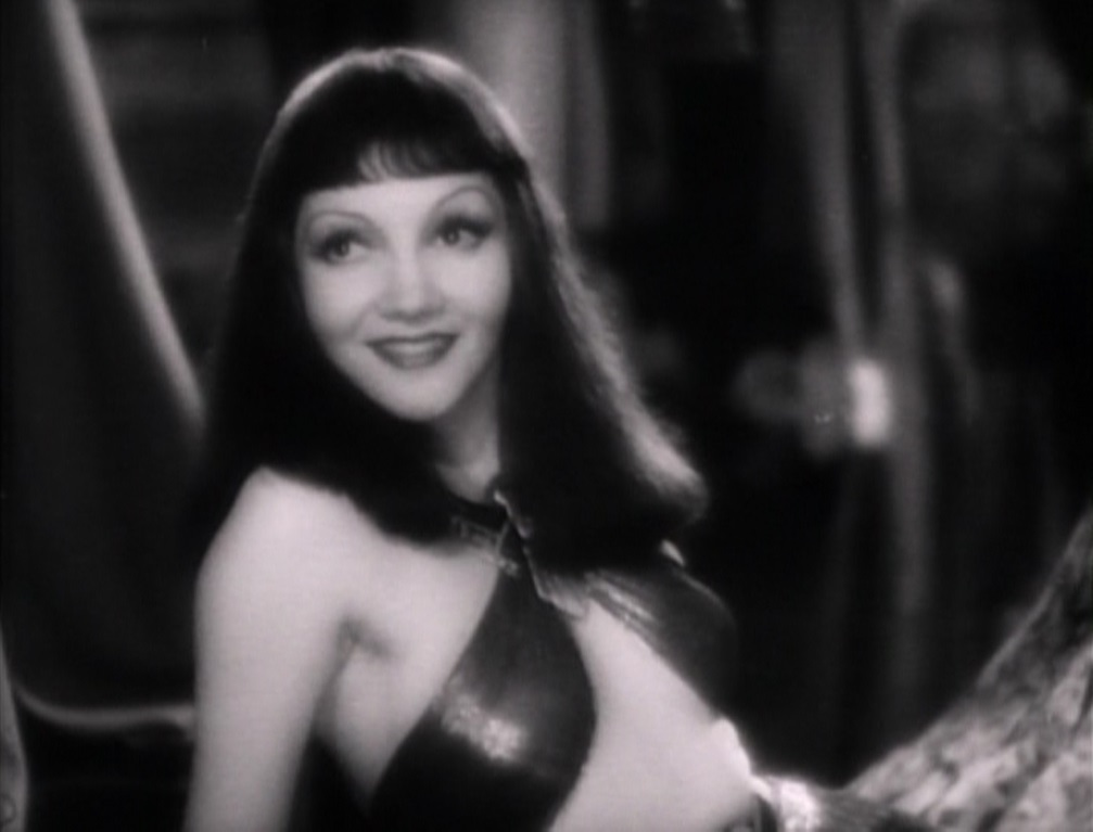 Screenshot of Claudette Colbert from the trailer for the film Cleopatra.